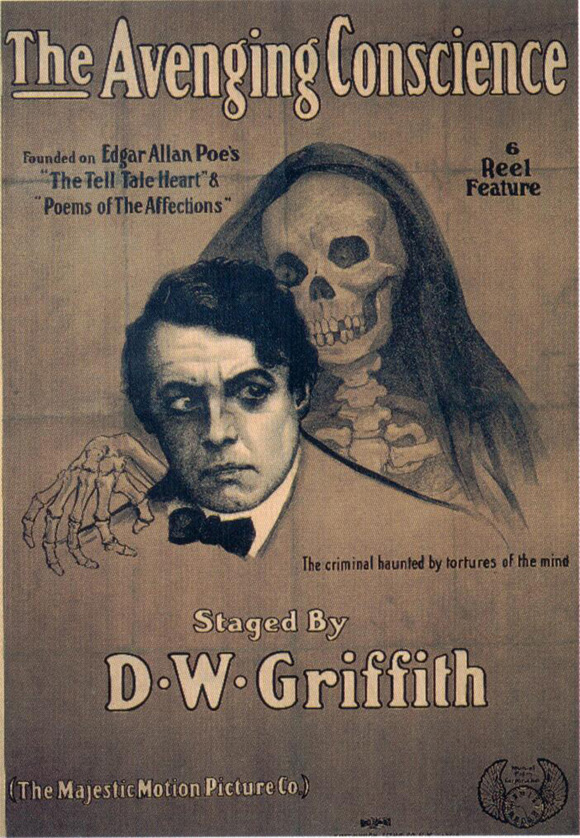 The Avenging Conscience movie poster